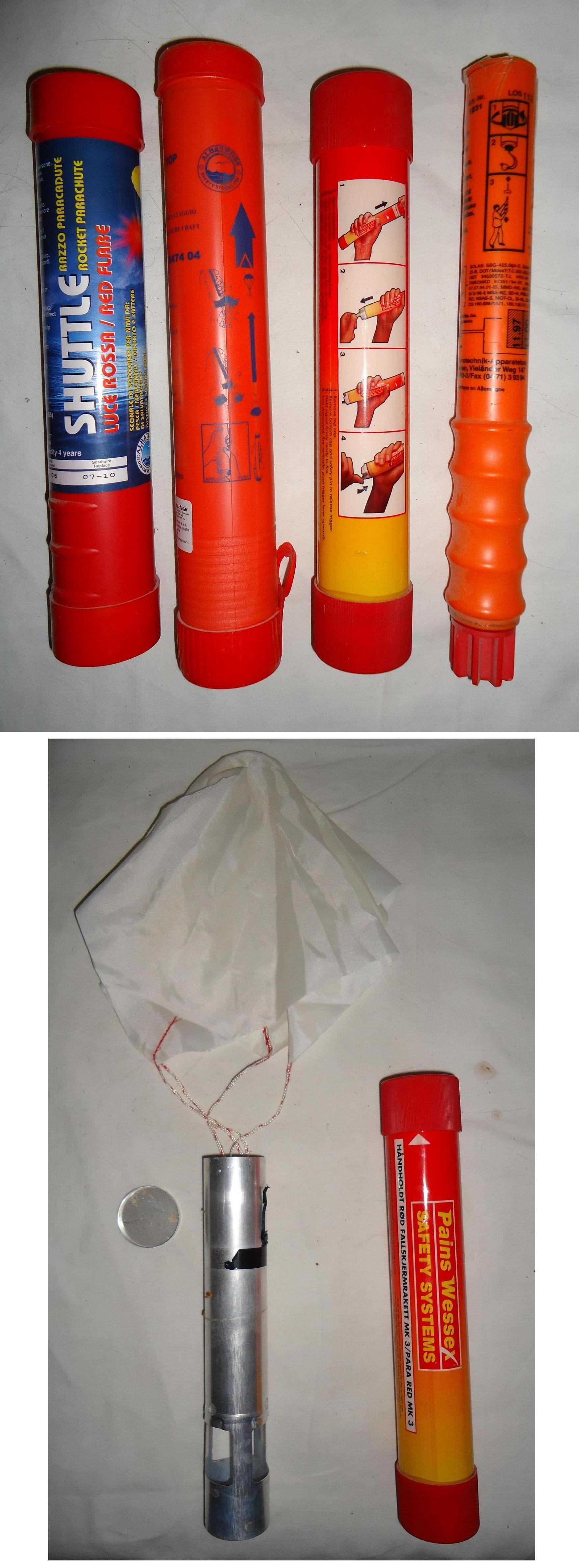 Signal rockets